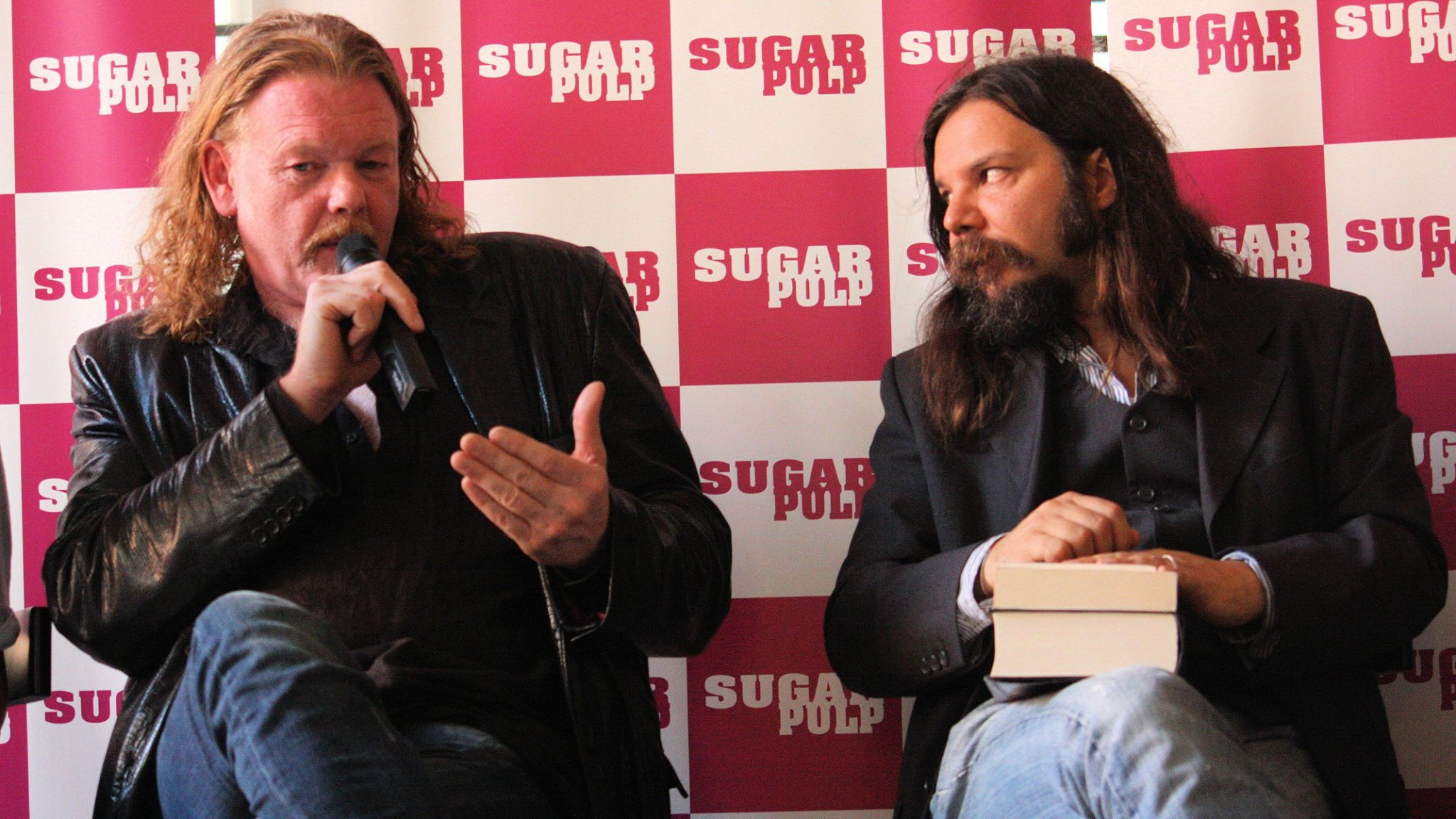 Tim Willocks and Matteo Strukul at the 2014 Padua SugarCon